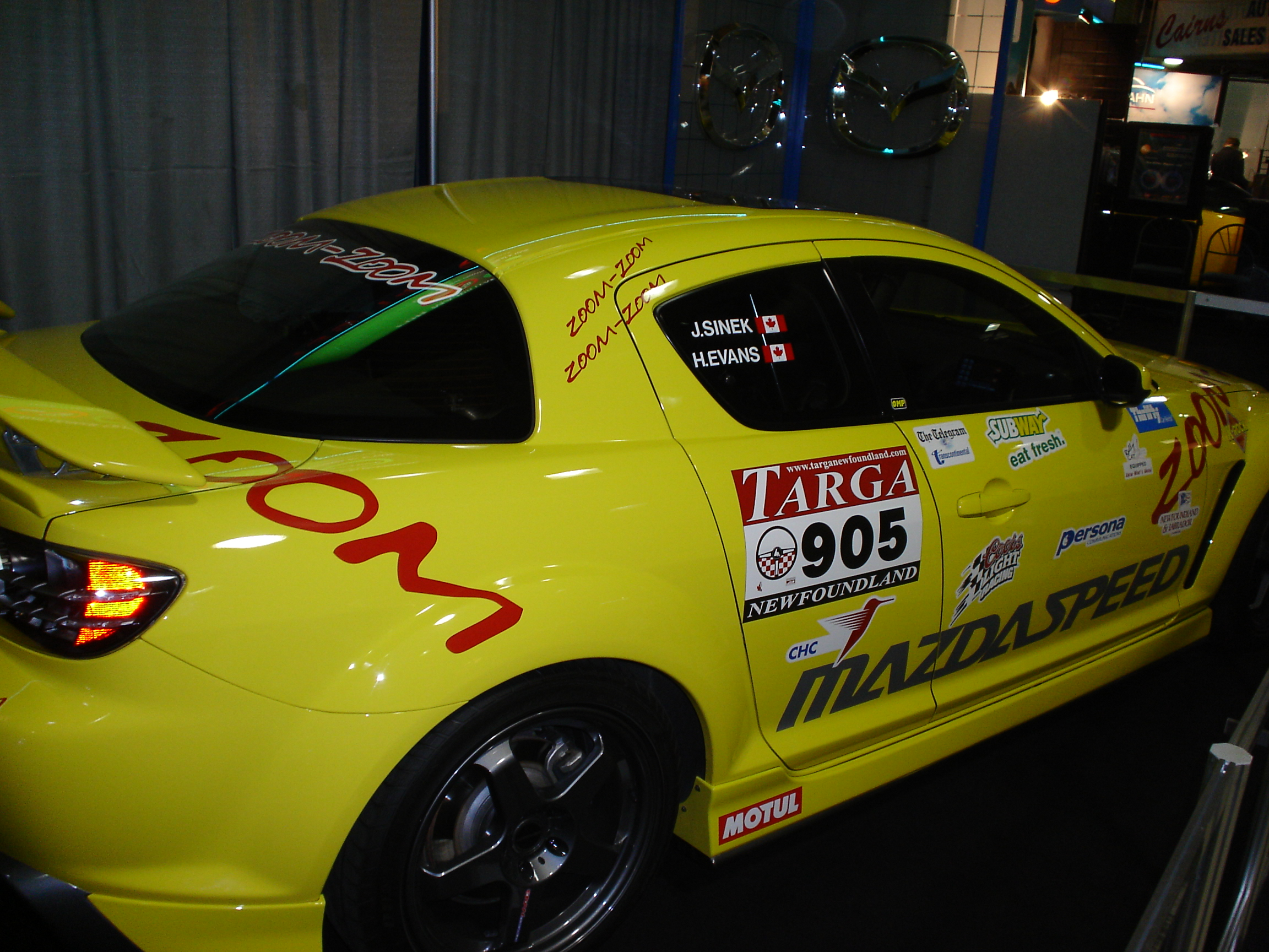 Mazda 6 on display at the 2005 Canadian International Autoshow in Toronto that participated in the Targa Newfoundland.